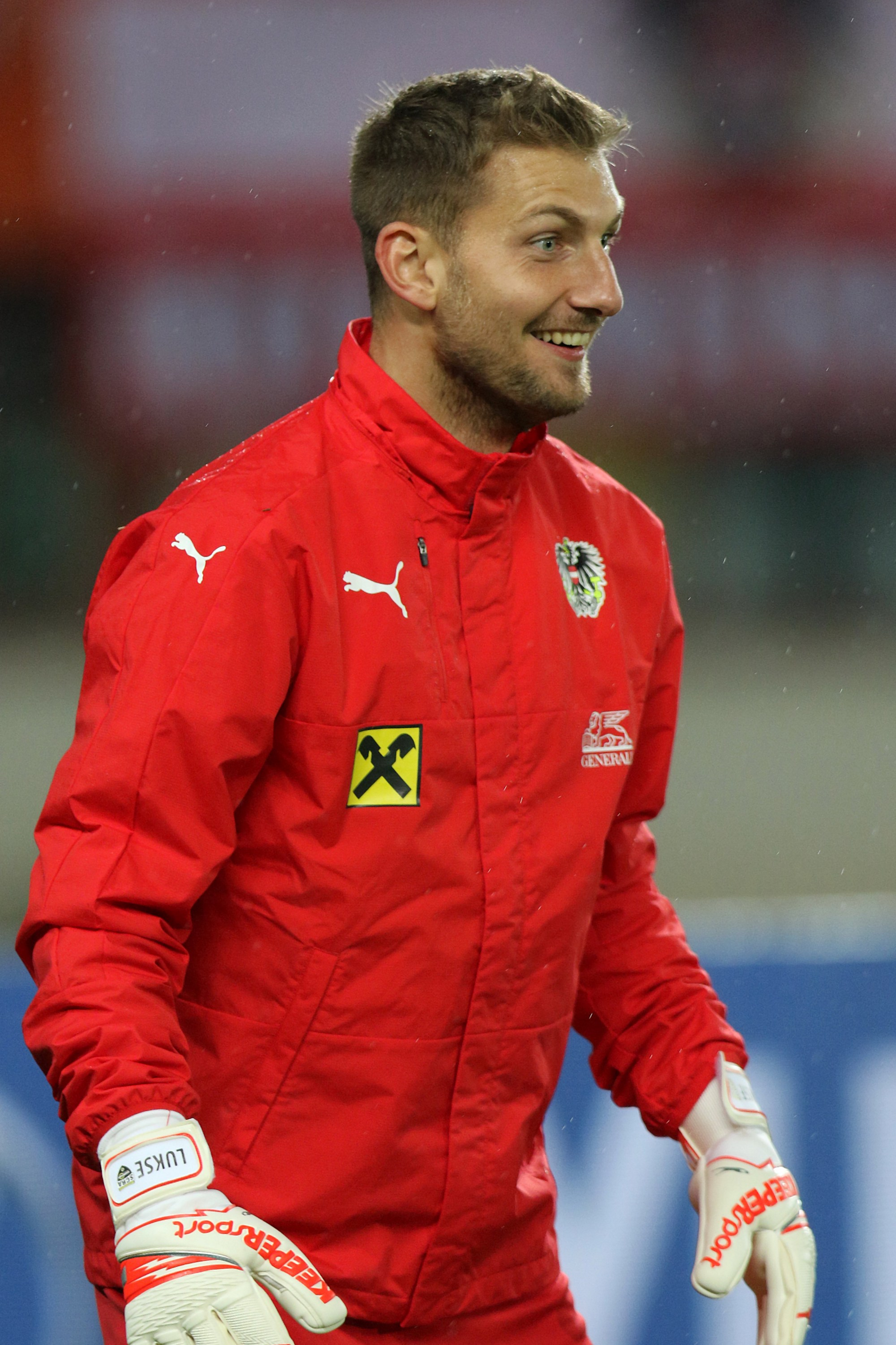 2018 FIFA World Cup qualification – UEFA Group D) – Austria (red shirts) vs. Wales (white shirts) 2-2 (1-2) – 2016-10-06 in Vienna, Ernst-Happel-Stadion – The photo shows Andreas Lukse.